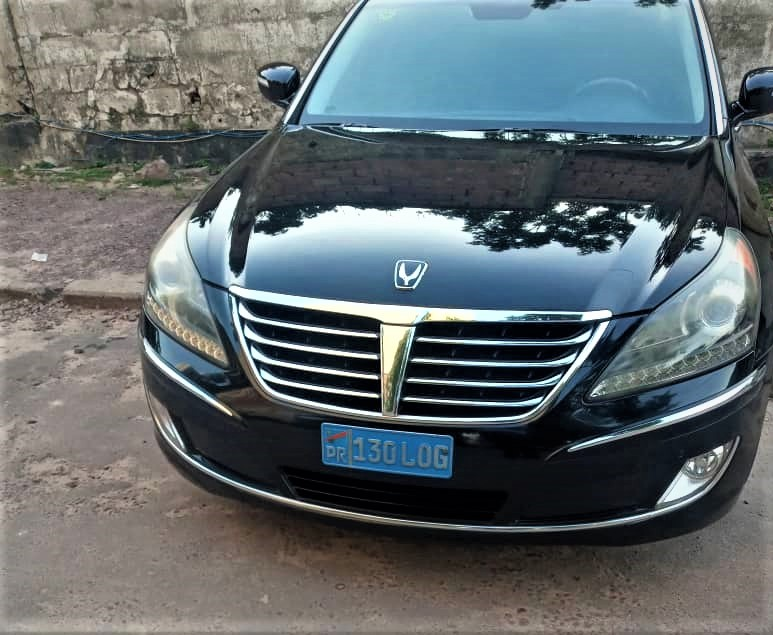 This is an image with the theme "Africa on the Move or Transport" from: Democratic Republic of the Congo